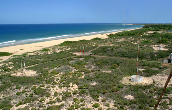 United States National Institute of Standards and Technology (NIST) radio station WWVH's antenna field in Barking Sands, Kauaʻi, Hawaiʻi. This station broadcasts timecode information to Hawaii and the Pacific Ocean. The antennas visible, from left to right, are the 20 MHz (abandoned), 15 MHz, and 10 MHz phased antenna pairs, followed by the 2.5 MHz monopole antenna. Further right, surrounded by octagonal fences, are two broadband backup antennas used in case one of the main antennas is unavailable. To the far right, part of the station building can be seen. The photograph was taken from the 5 MHz antenna pair, which is not visible.